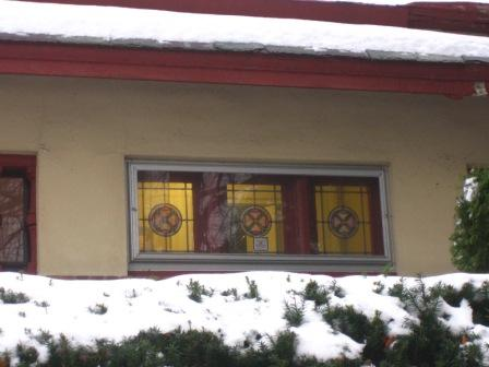 Collins House, 2201 E. Genesee Street, Syracuse, New York. Window detail 3.